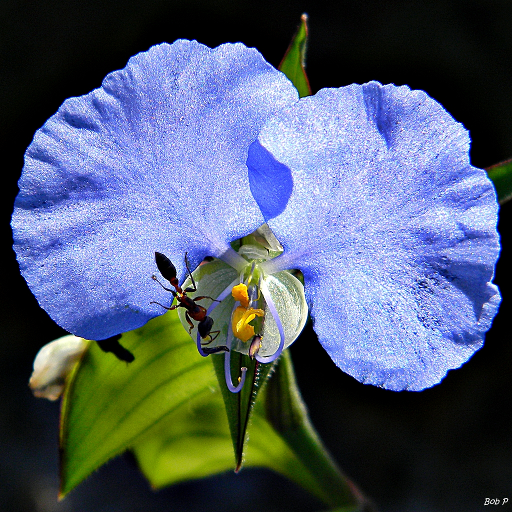 A dayflower blooming in the scrub section of Frenchman's Forest Natural Area. This Commelina species is native and should not be confused with the smaller, invasive Commelina diffusa of lawn weed fame. The skinny interloper is my old "friend" the Elongate Twig Ant (Pseudomyrmex gracilis), who seems to delight in stinging humans. They are very curious hunters and explorers and really only sting if trapped under loose clothing or grabbed. The sting has been described as "terrible" but it's really not that bad. If you see a certain wildflower dude suddenly pulling his shirt off and shaking it madly in the air, blame this ant!